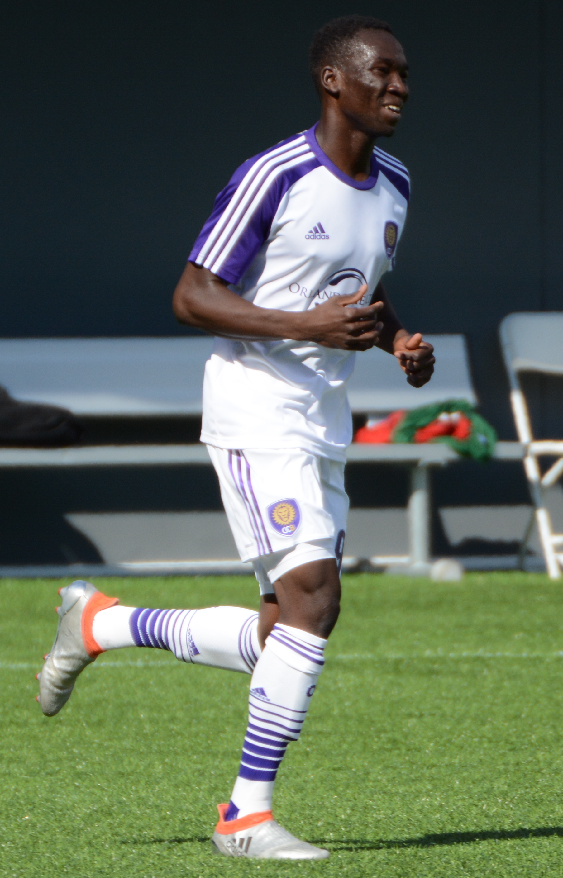 Albert Dikwa Taken during a match between FC Cincinnati and Orlando City B at Nippert Stadium in Cincinnati, USA on May 13, 2017.